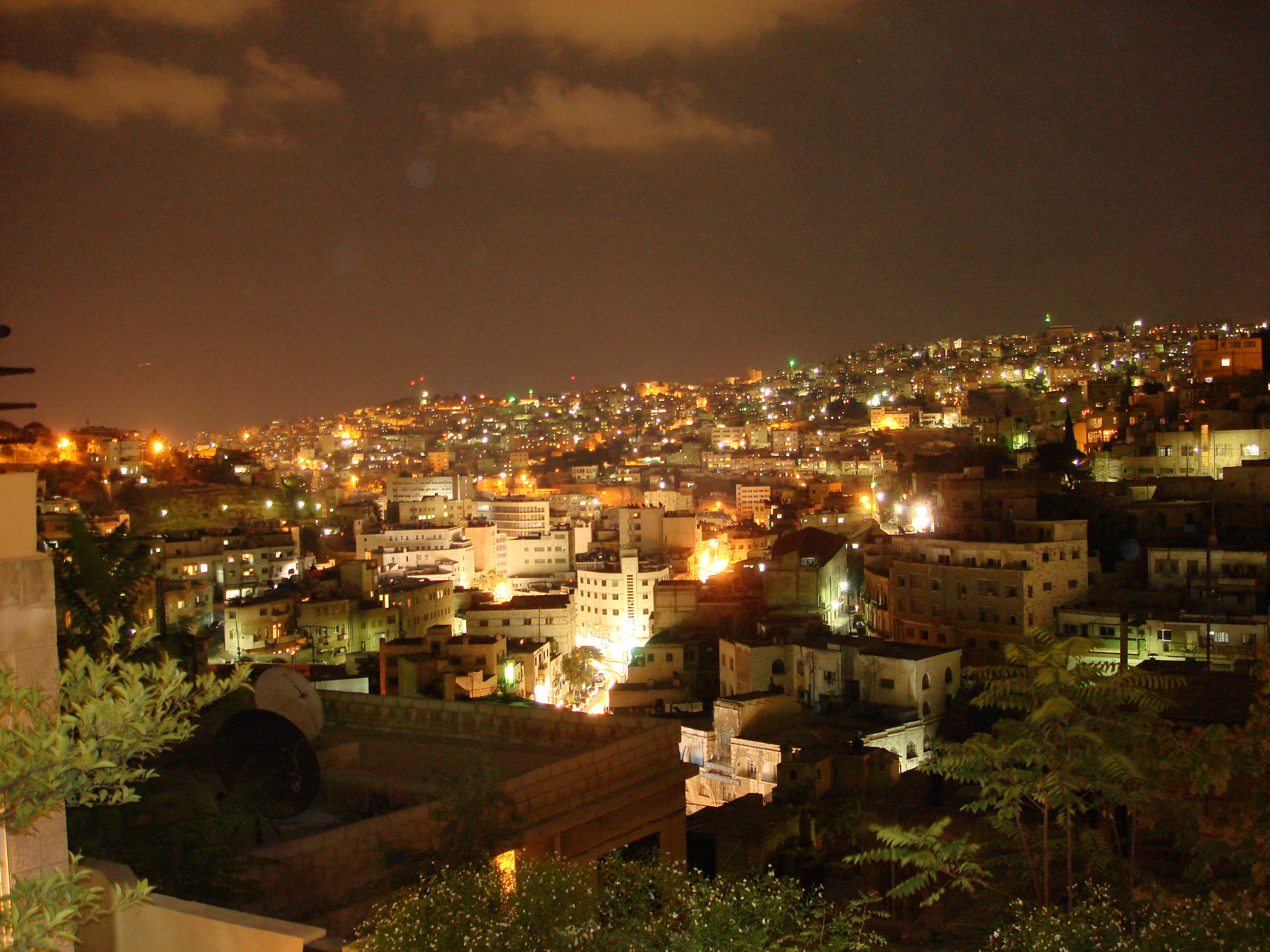 Down town Amman as seen from Jabal Al Webdeh